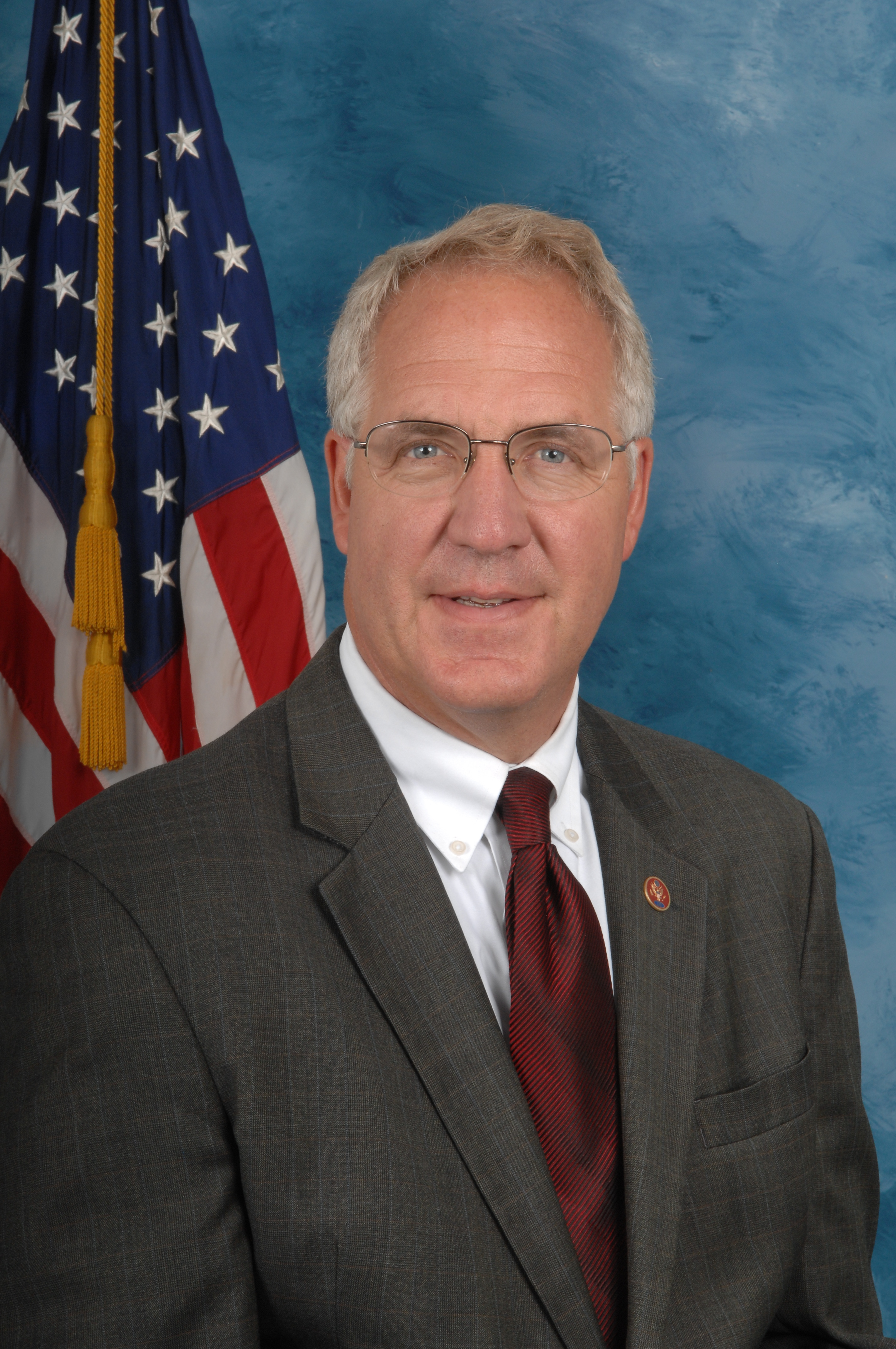 John Shimkus, member of the United States House of Representatives.